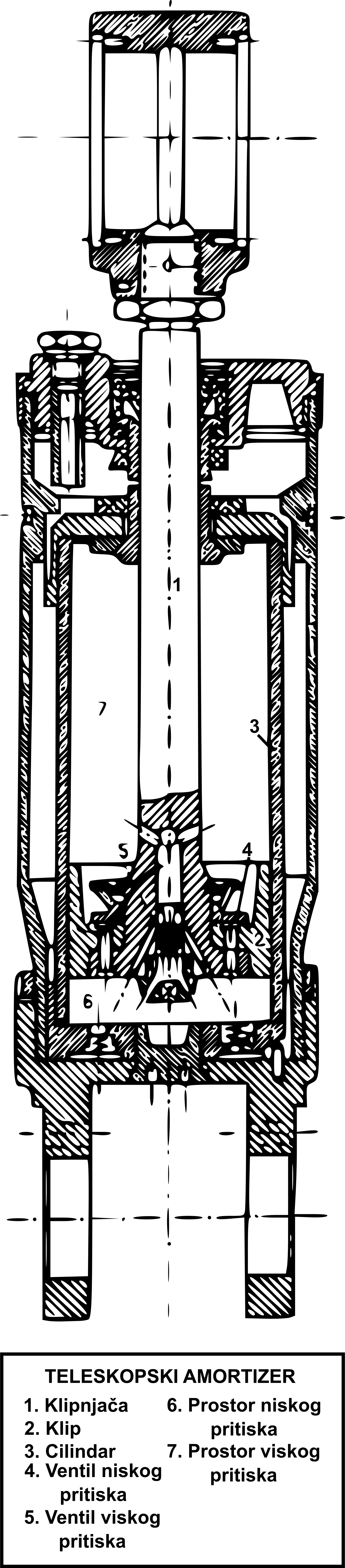 Telescopic shock absorber